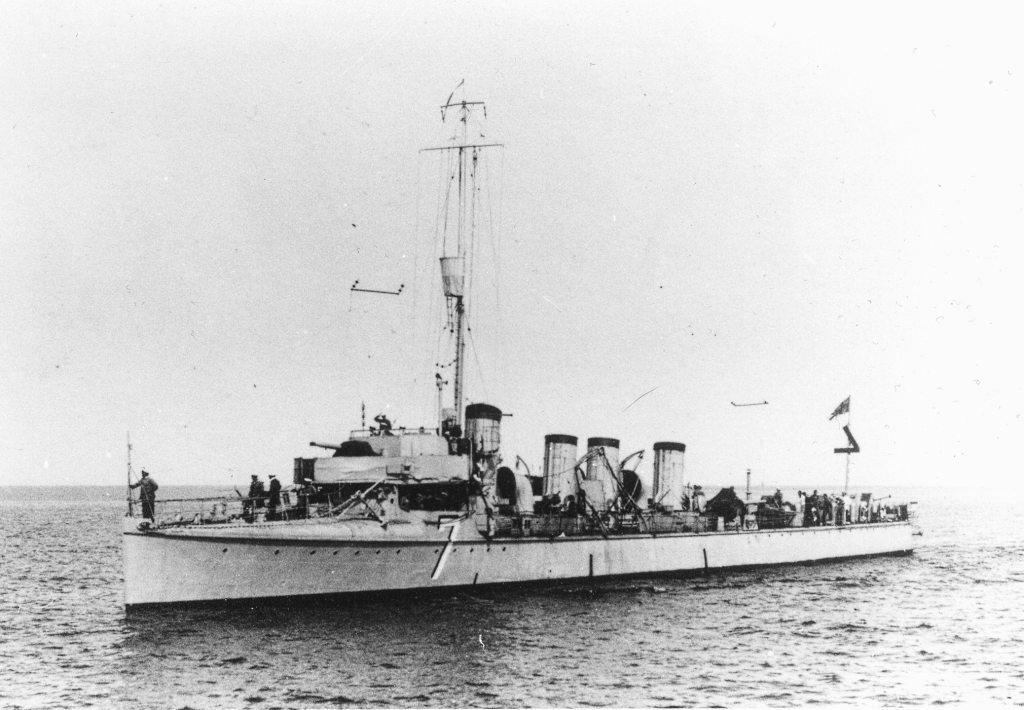 The Swedish destroyer HMS Hugin on the 16 July, 1926. She was built at Göteborgs Nya Verkstad – later known as Götaverken – modeled after HMS Magne, which was bought from Thornycroft in England. From Curt S. Olsson's collections.